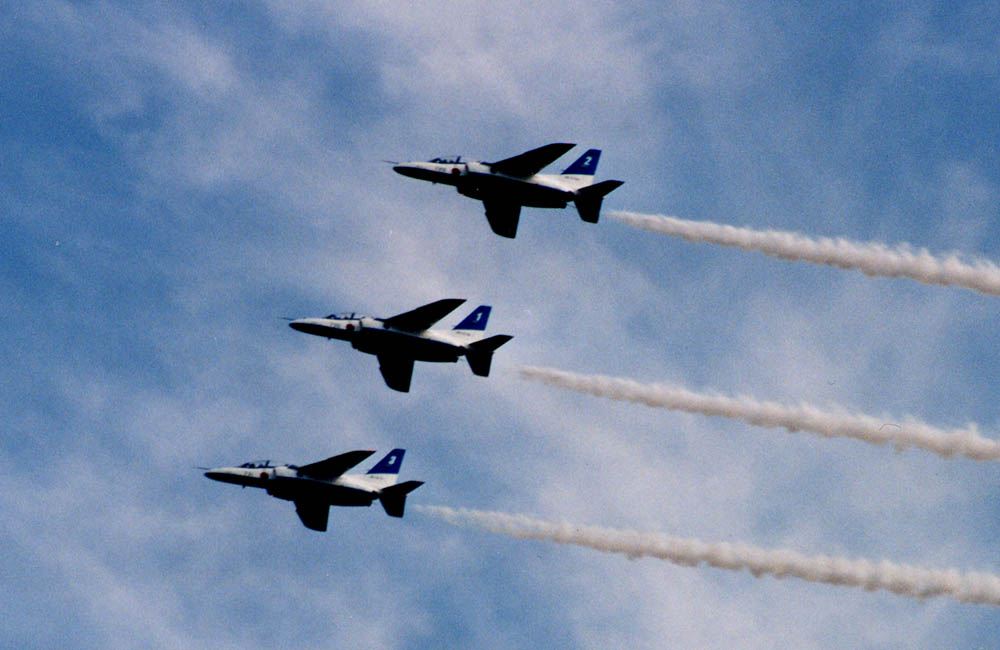 JASDF-Blueimpulse. Taken by Los688, in 1999,Matushima,Japan.